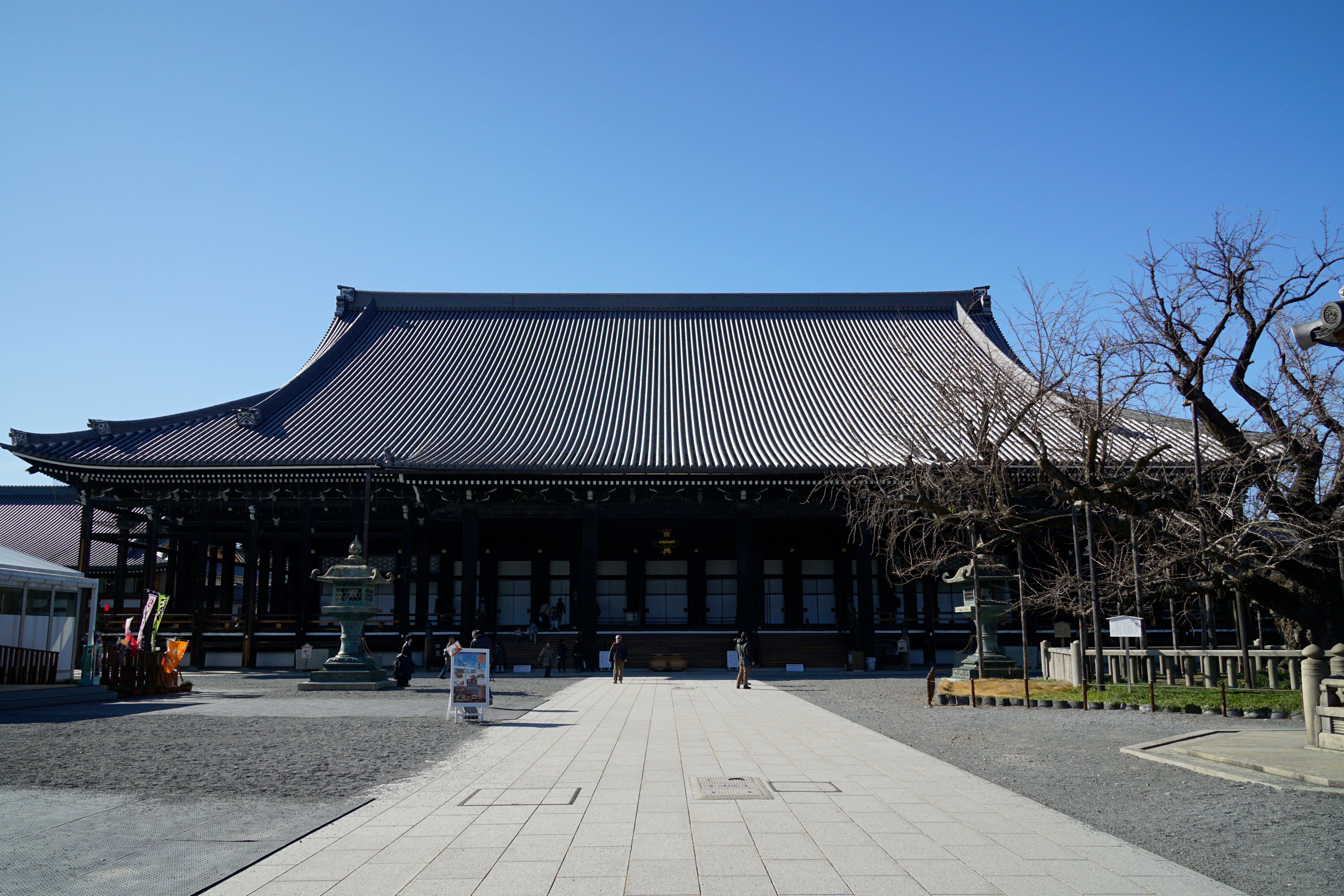 Nishi Honganji in Kyoto, Kyoto prefecture, Japan